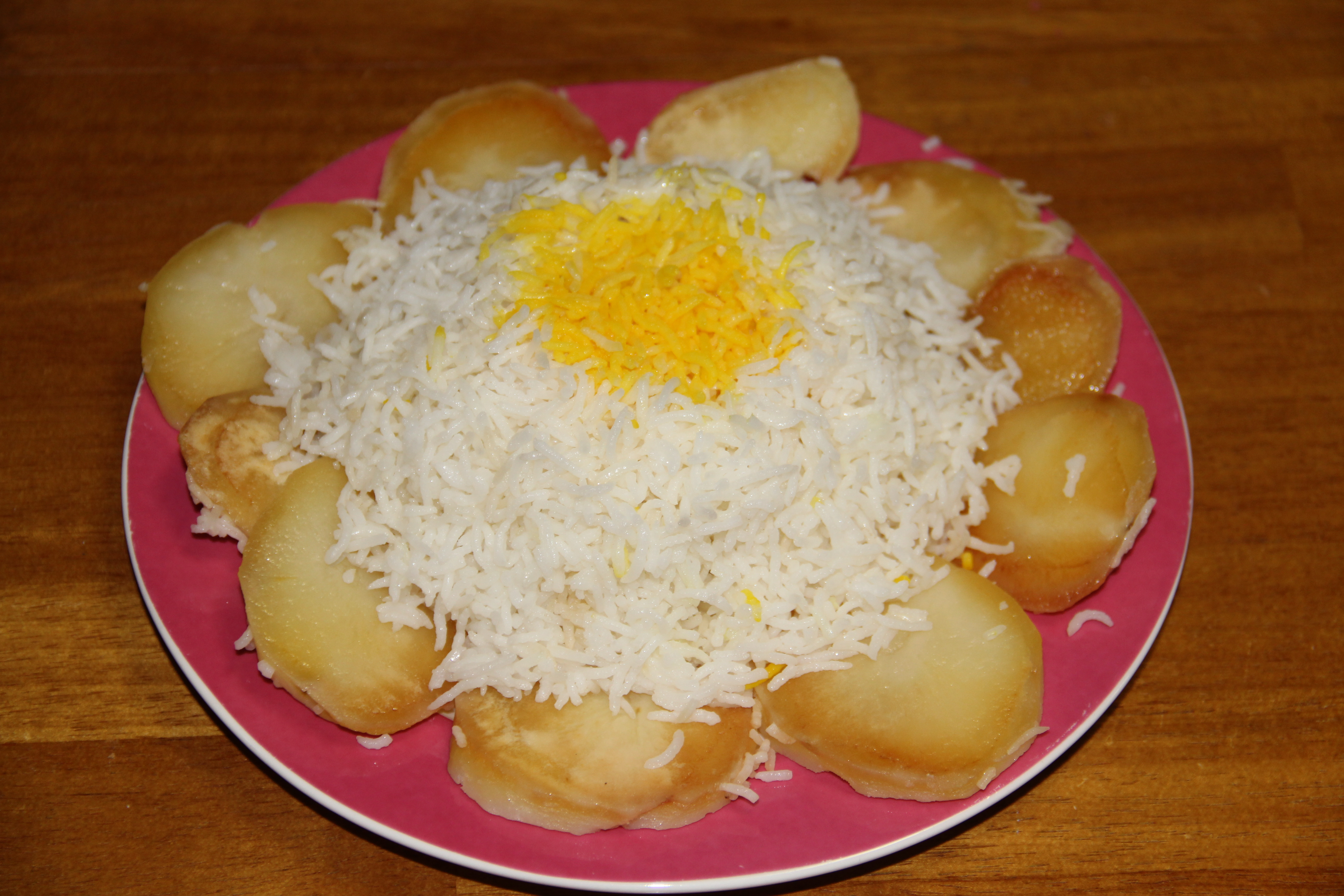 Making Chelow With tadig